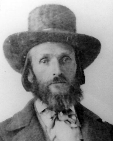 portrait of Isaac C. Haight